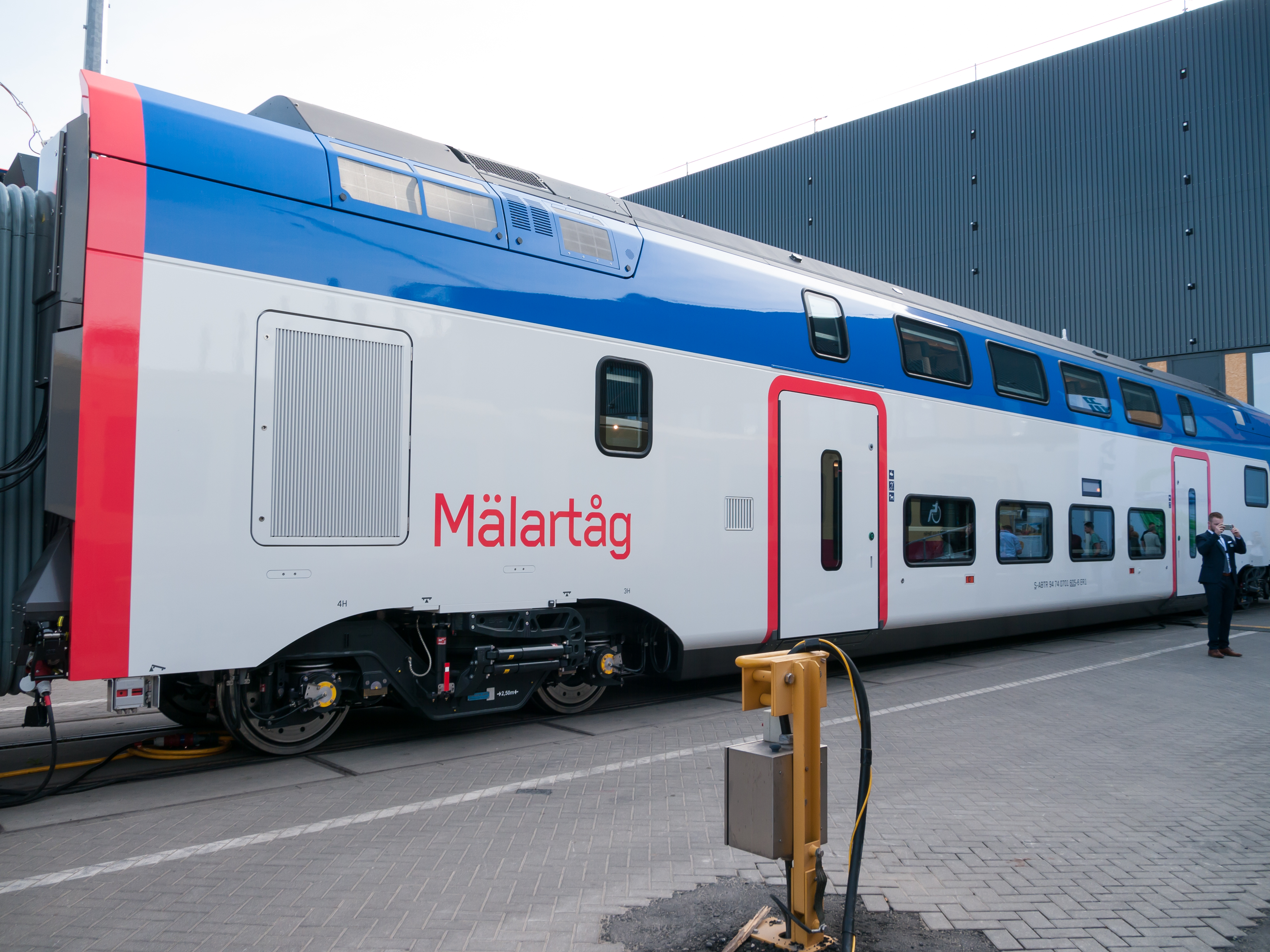 Innotrans 2018